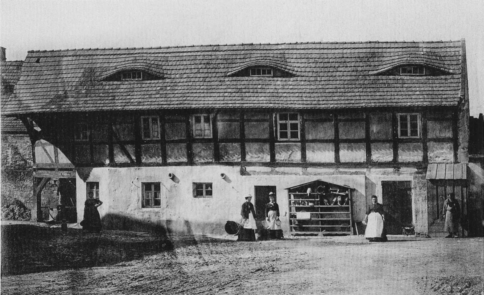 pub "Leubener Erbgericht" in Dresden-Leuben, Germany – demolished 1898